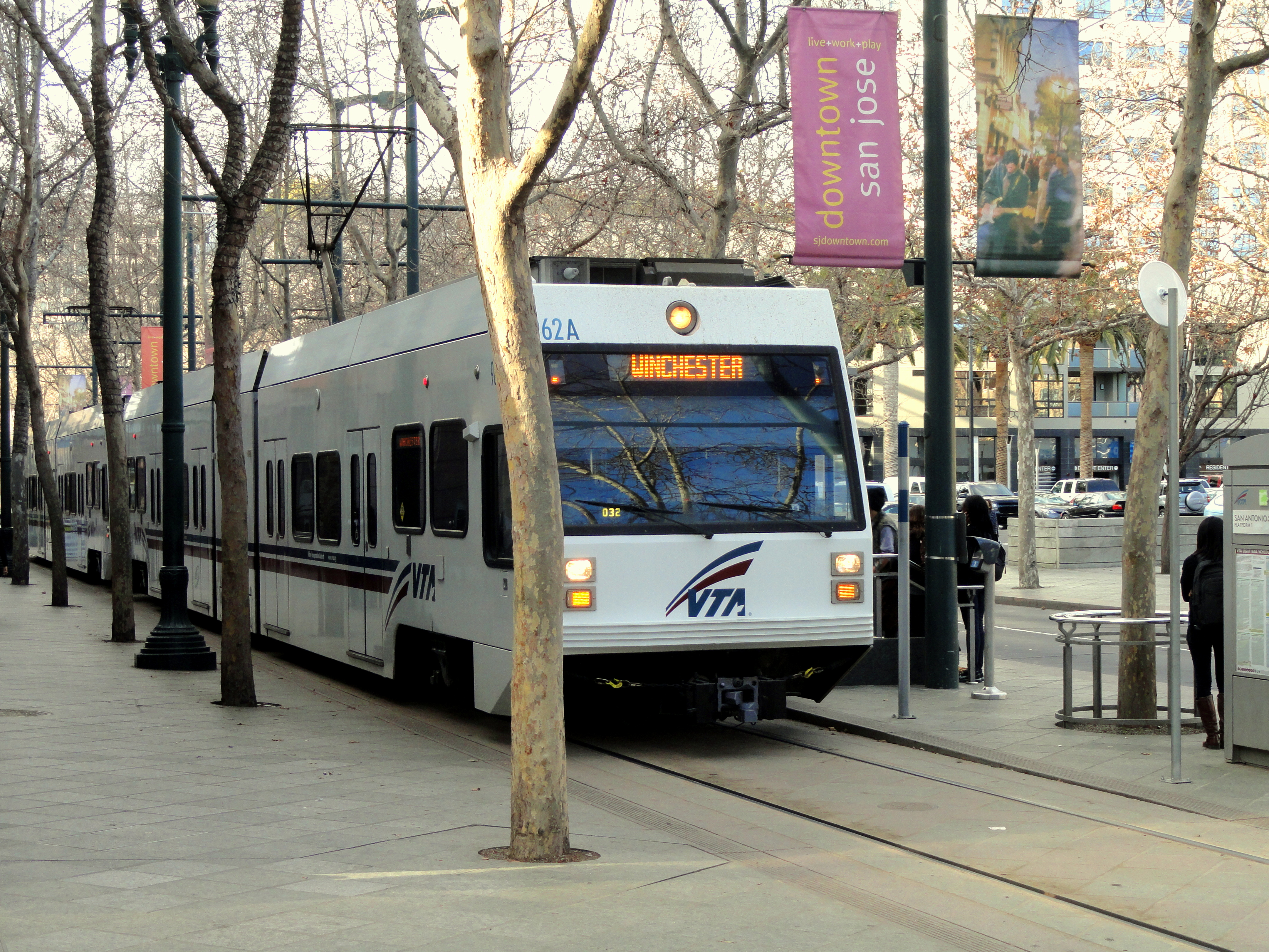 Light rail transport, San Jose, California, USA.